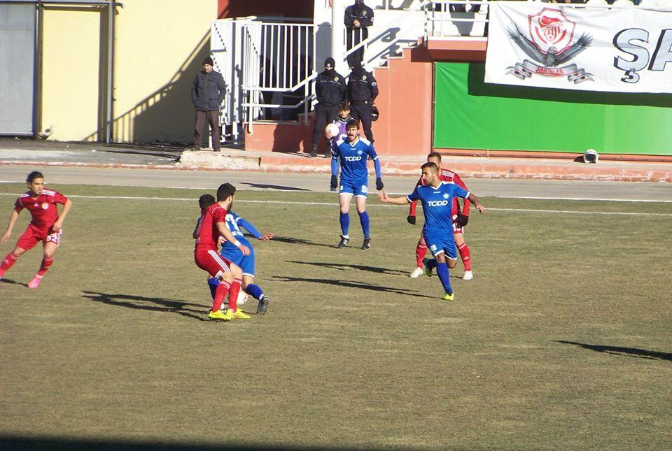 Turkish 2. Lig (2nd League) Gümüşhanespor 0-2 Ankara Demirspor match (2015-2016 season)